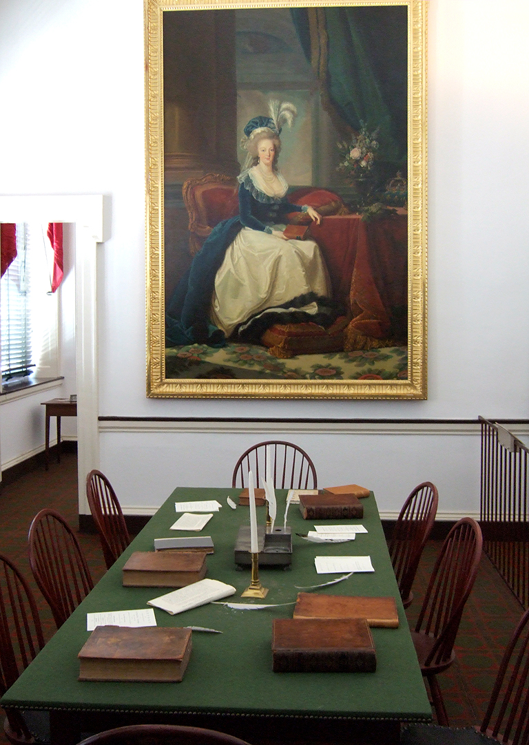 One of several committee rooms in Congress Hall, at Philadelphia, PA. The room is located on the second floor, on the west side of the building, adjacent to the Senate chamber. The view is looking toward the front of the building. The portrait of Marie Antoinette, by Élisabeth Vigée-Lebrun (1788), was presented as a gift from the French monarch following the American Revolution.